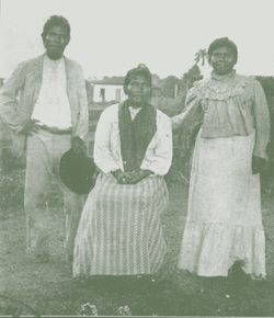 Kaingang family photographed by the members of the Geographical and Geological Commission of the State of São Paulo during the exploration of Rio do Peixe in 1906